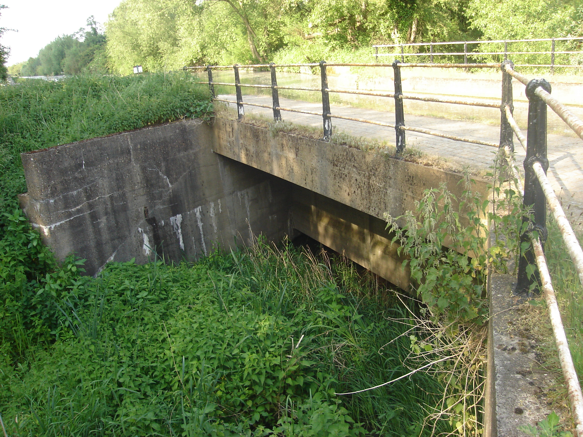 Picture of the aqueduct at Aqueduct Lock